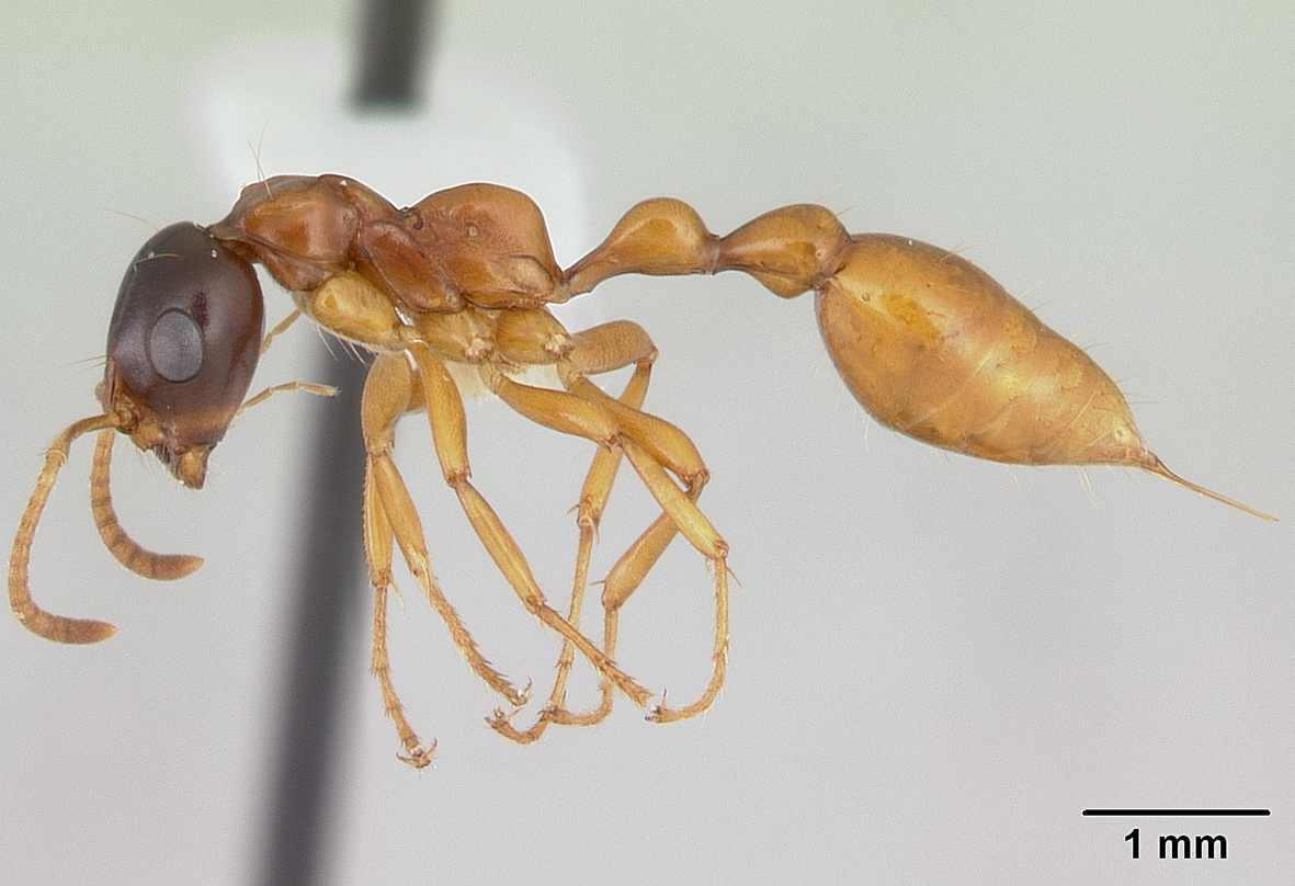 Profile view of ant Tetraponera grandidieri specimen casent0012861.